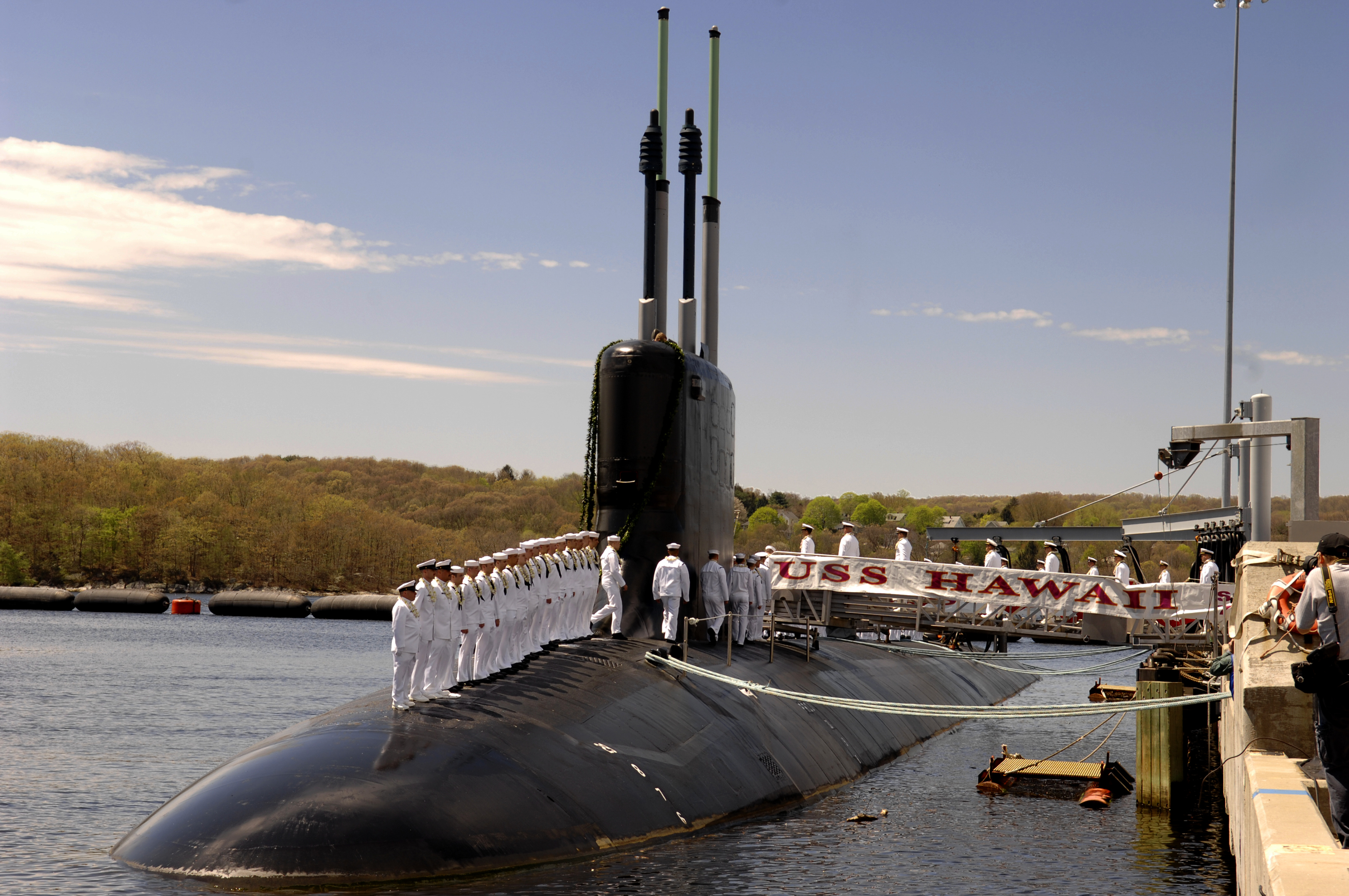 070505-N-3642E-591 - Sailors "man the ship" and officially bring the newest Virginia-class nuclear attack submarine USS Hawaii (SSN 776) to life during her commissioning ceremony. Hawaii is the third Virginia-class submarine to be commissioned and part of the first major U.S. Navy combatant vessel class designed with the post-Cold War security environment in mind. U.S. Navy photo by Chief Mass Communication Specialist Shawn P. Eklund (RELEASED)